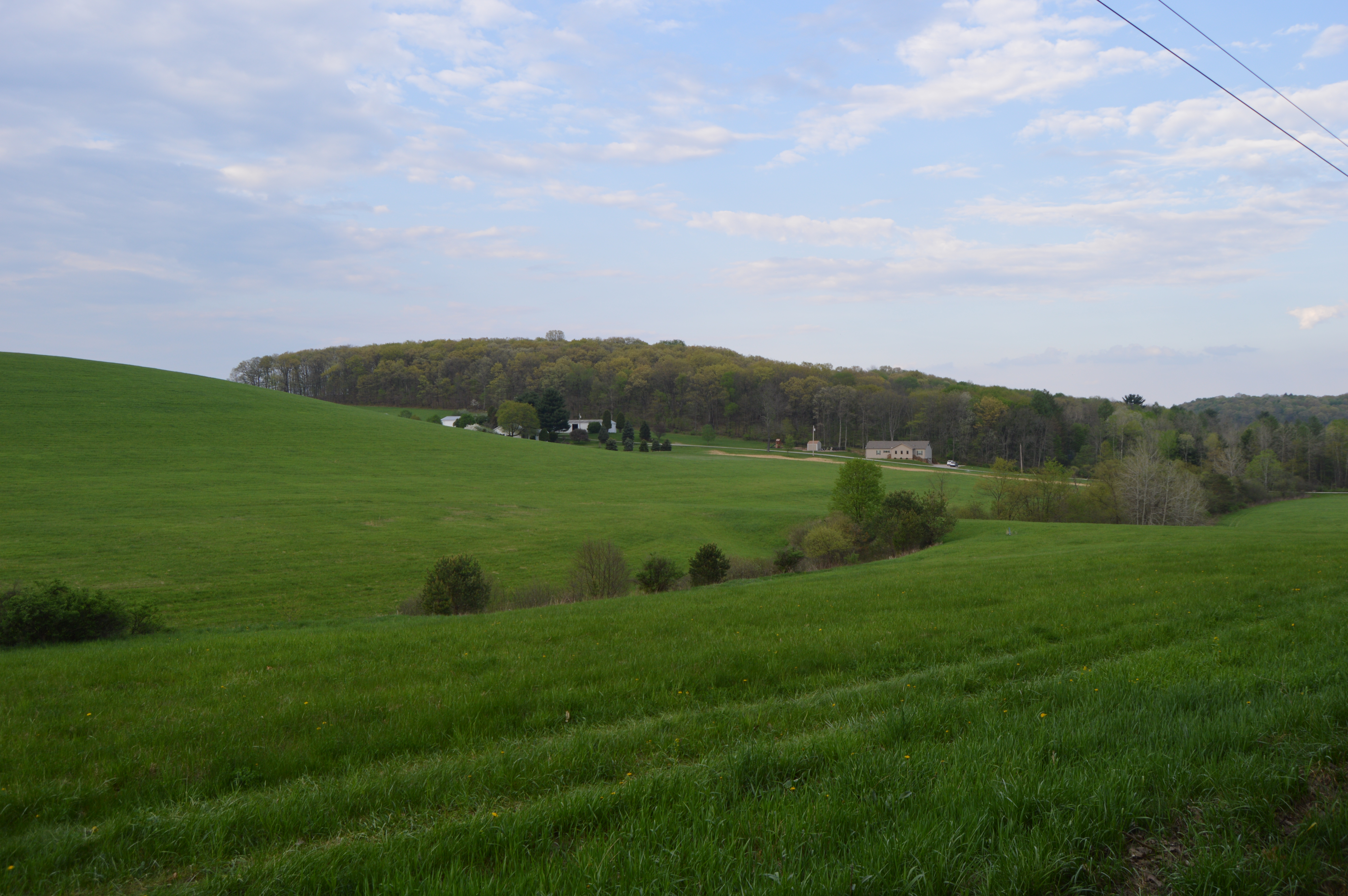 Grassy fields (hay fields?) seen looking northeast from O'Donnell Road southwest of Chicora in Donegal Township, Butler County, Pennsylvania, United States.